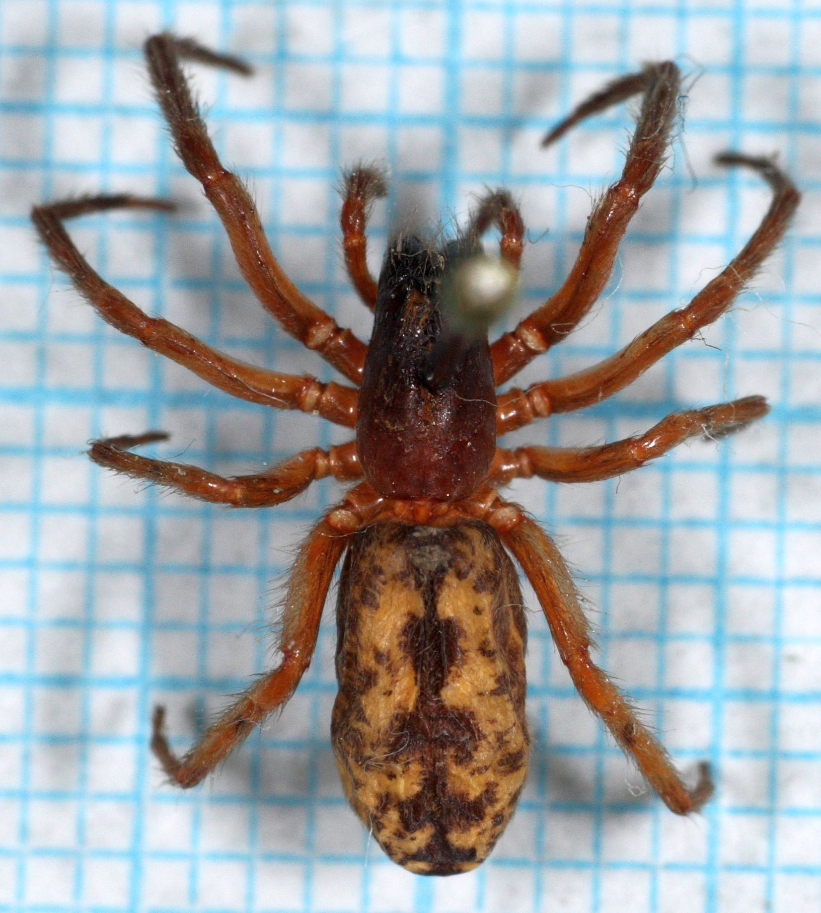 Female Segestria senoculata